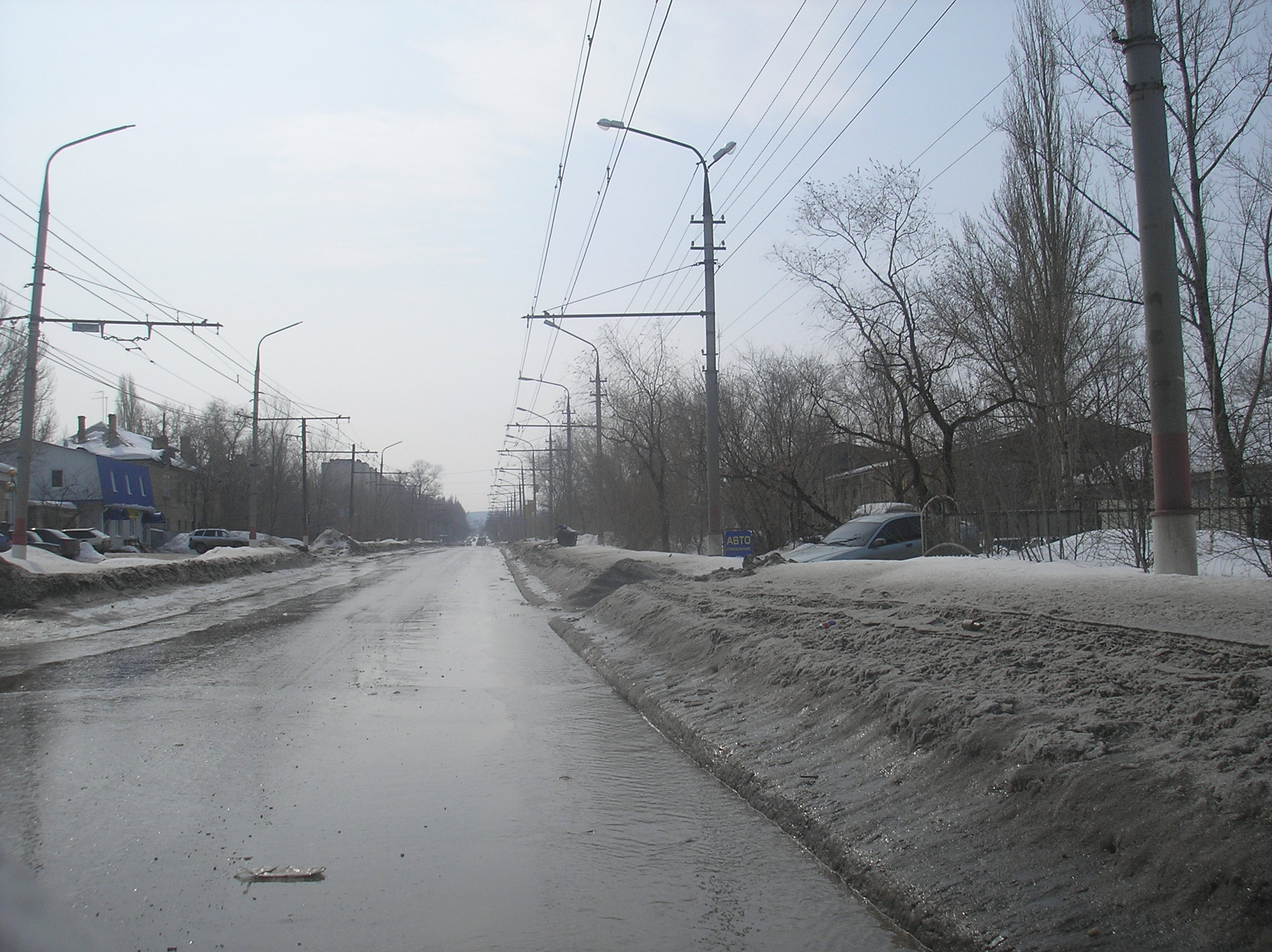 Burovaya street in Elshanka in Saratov.